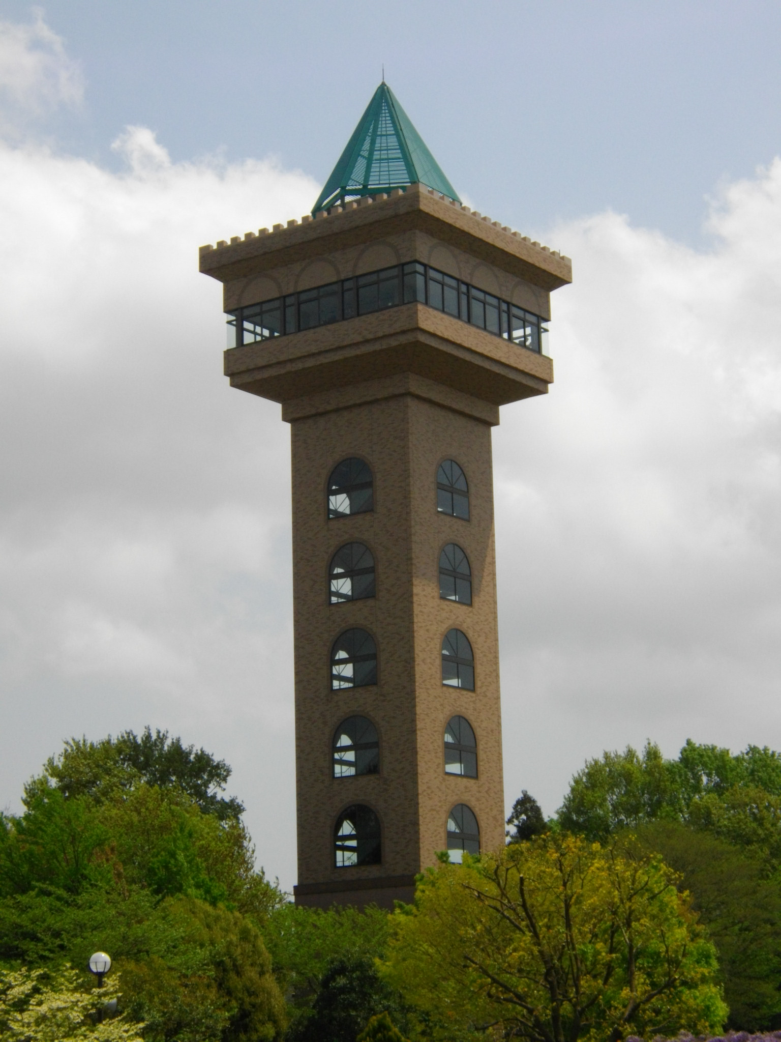 Green Tower Sagamihara